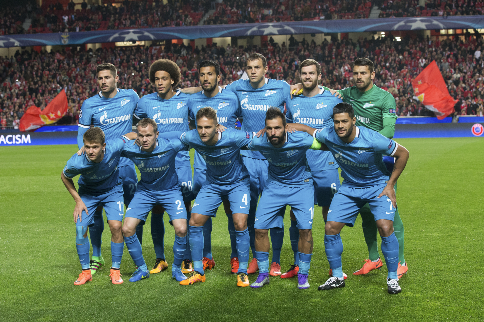 FC Zenit Saint Petersburg 2016